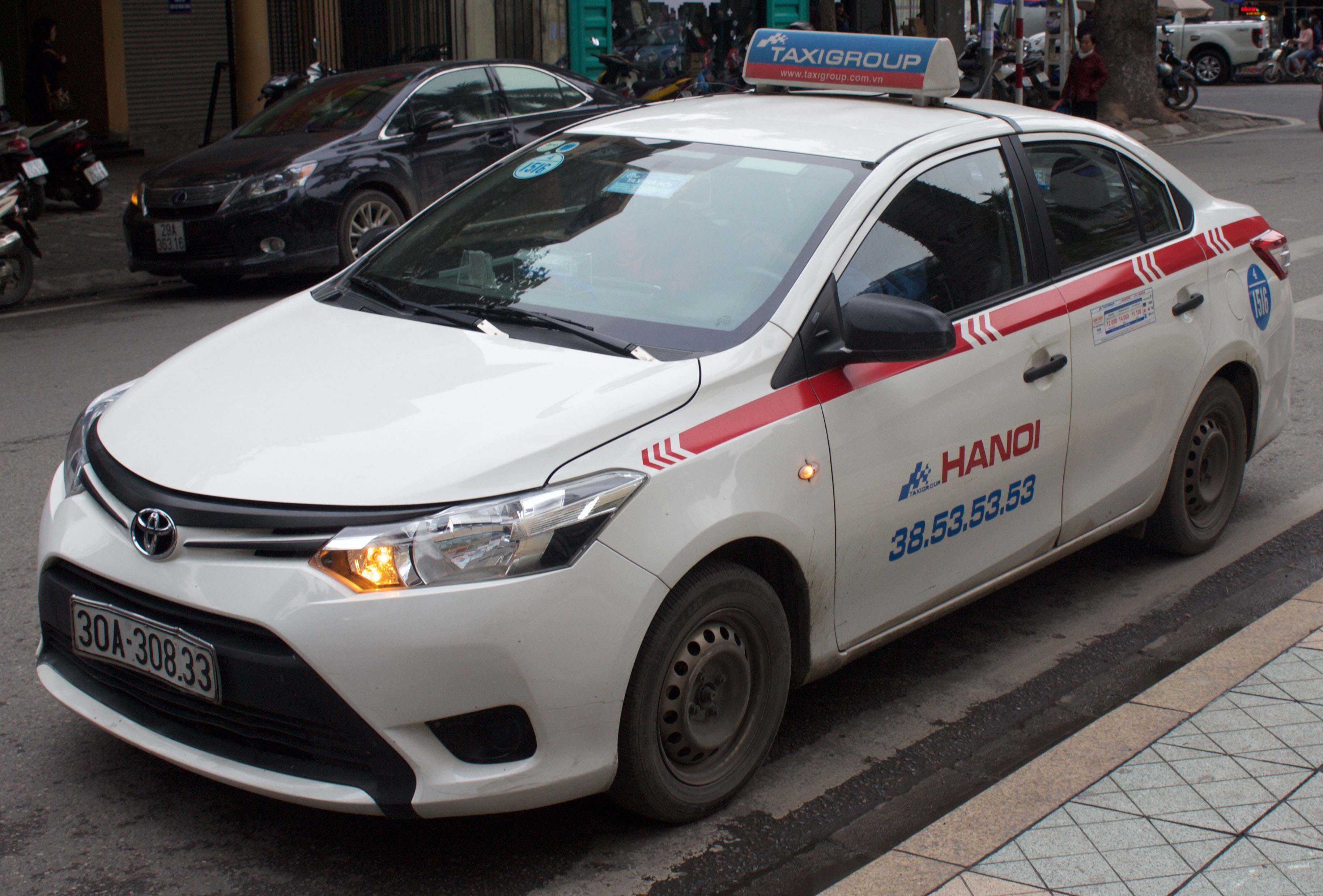 Toyota Limo Taxi Group in Hanoi Vietnam.